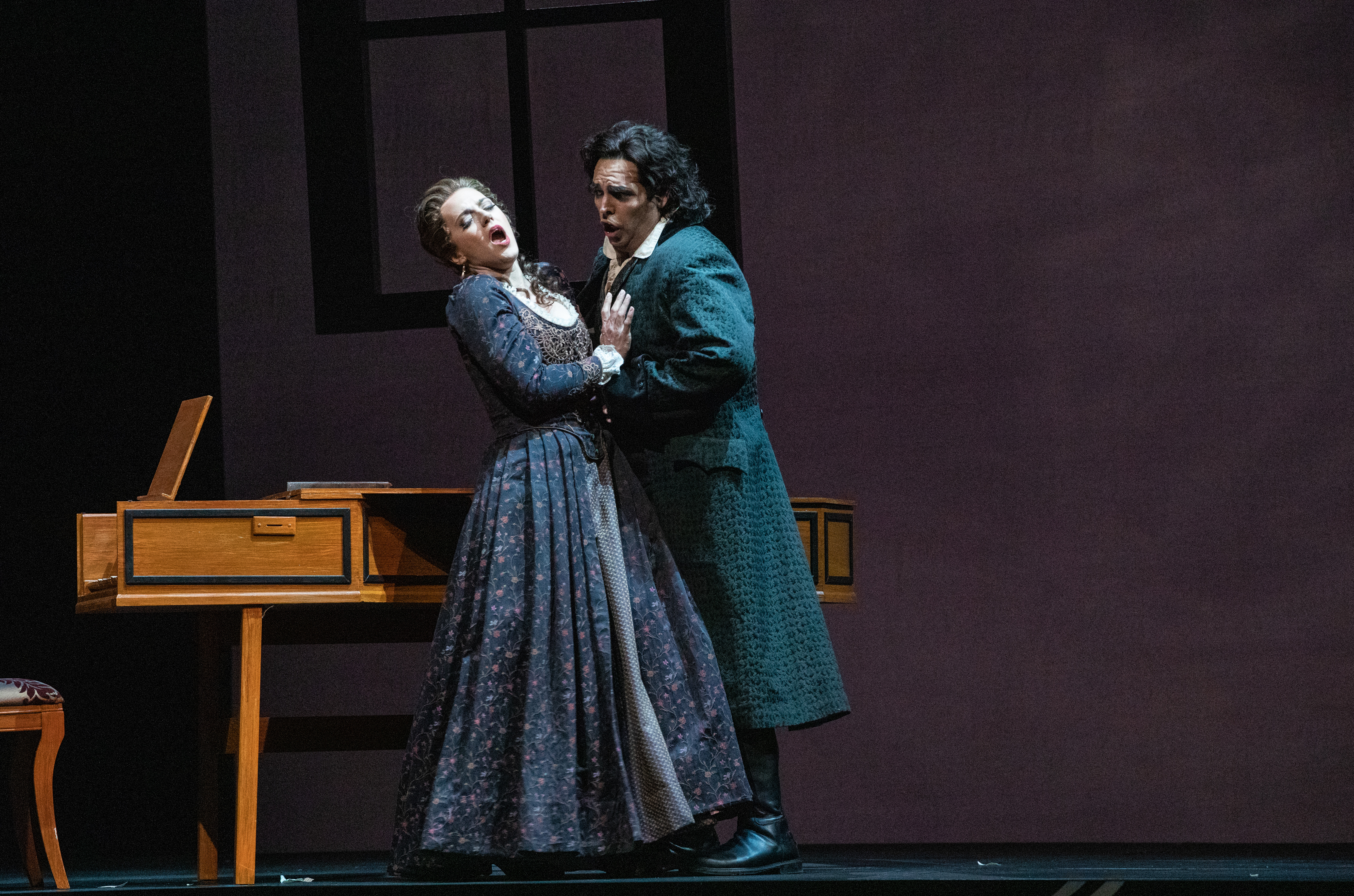 Photo by Daniel Azoulay